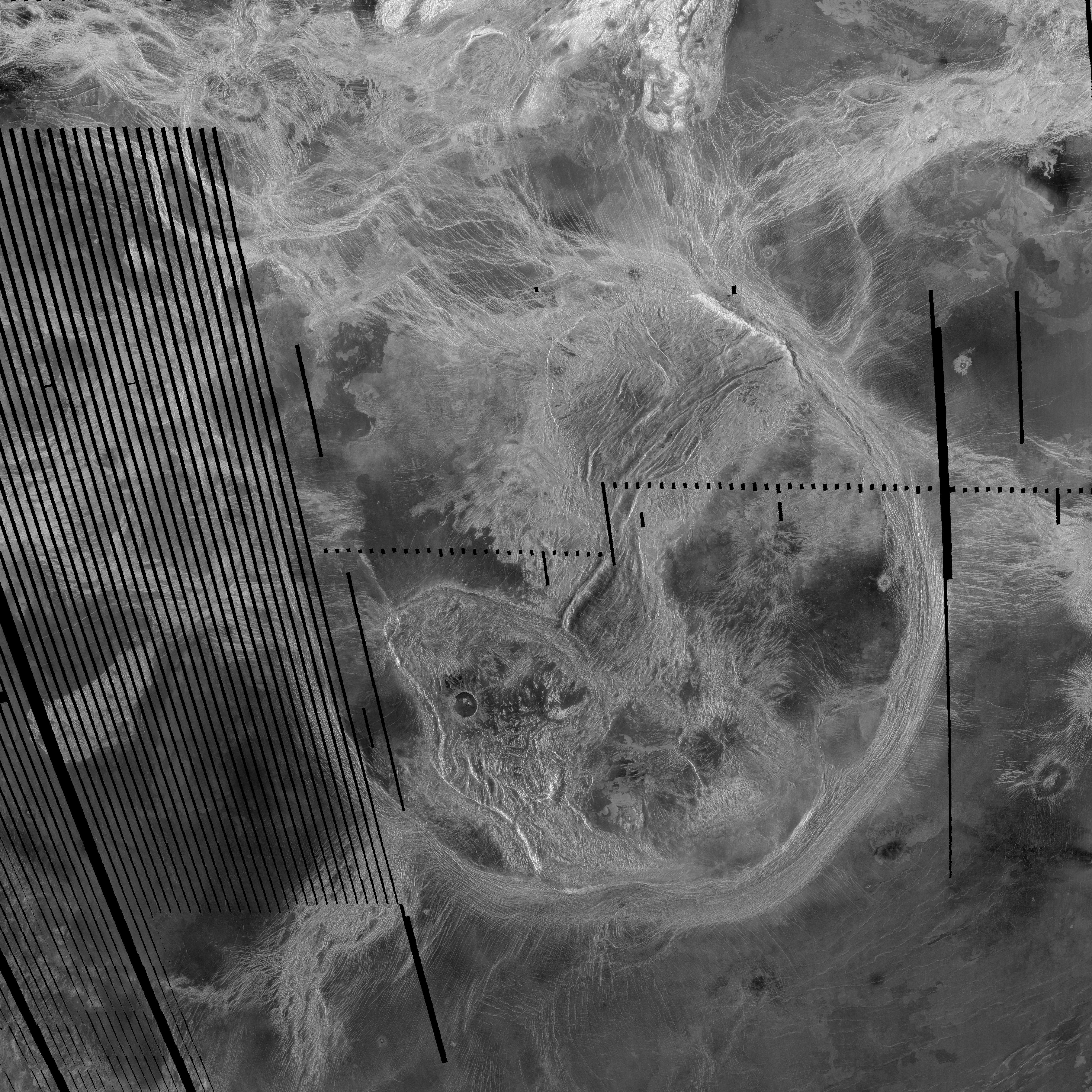 This spectacular Magellan image is centered on 30 degrees south latitude, 135 degrees east longitude, spans 3500 kilometers (2170 miles) from east to west (left to right), and shows the near-circular trough of Artemis Chasma. Its circular shape and size (2100 km or 1302 miles in diameter) make Artemis the largest corona identified to date on the surface of Venus. Artemis could encompass most of the U.S. from the Front Range of the Rockies (near Denver) to the West Coast and is approximately twice the diameter of the next-smaller corona Heng-O. Coronae are characterized by a ring of concentric features surrounding an interior which typically contains fractures of varying orientations and volcanic features ranging from individual flows and small ( 100 kilometers [62 mile]) shield volcanoes. Artemis contains complex systems of fractures, numerous flows and small volcanoes, and at least two impact craters, the larger of which is located in the lower left (southwest) quadrant of the feature. The ring of fractures that defines Artemis forms a steep trough with raised rims approximately 120 kilometers (74 miles) wide and with as much as 2.5 kilometers (1.6 miles) of relief from the rim crest to the bottom of the trough. Most coronae are thought to be related to upwelling of hot material from the interior of Venus in the form of plumes or diapirs, and Artemis may be an extensional trough related to such an upwelling event. Raised-rim troughs are most commonly found to be extensional features (those formed by forces which tend to pull apart the crust and lithosphere of a planet) but the unusual size and circularity of Artemis have led to the alternate suggestion that it may be a zone of intense compression and underthrusting, similar to oceanic subduction zones on Earth. Magellan scientists are currently examining this feature in detail to determine which, if either, of these hypotheses is correct.